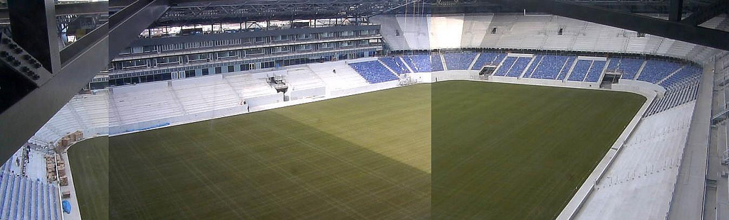 Panorama in Red Bull Arena Stadium in New Jersey. Taken on the 6th of November